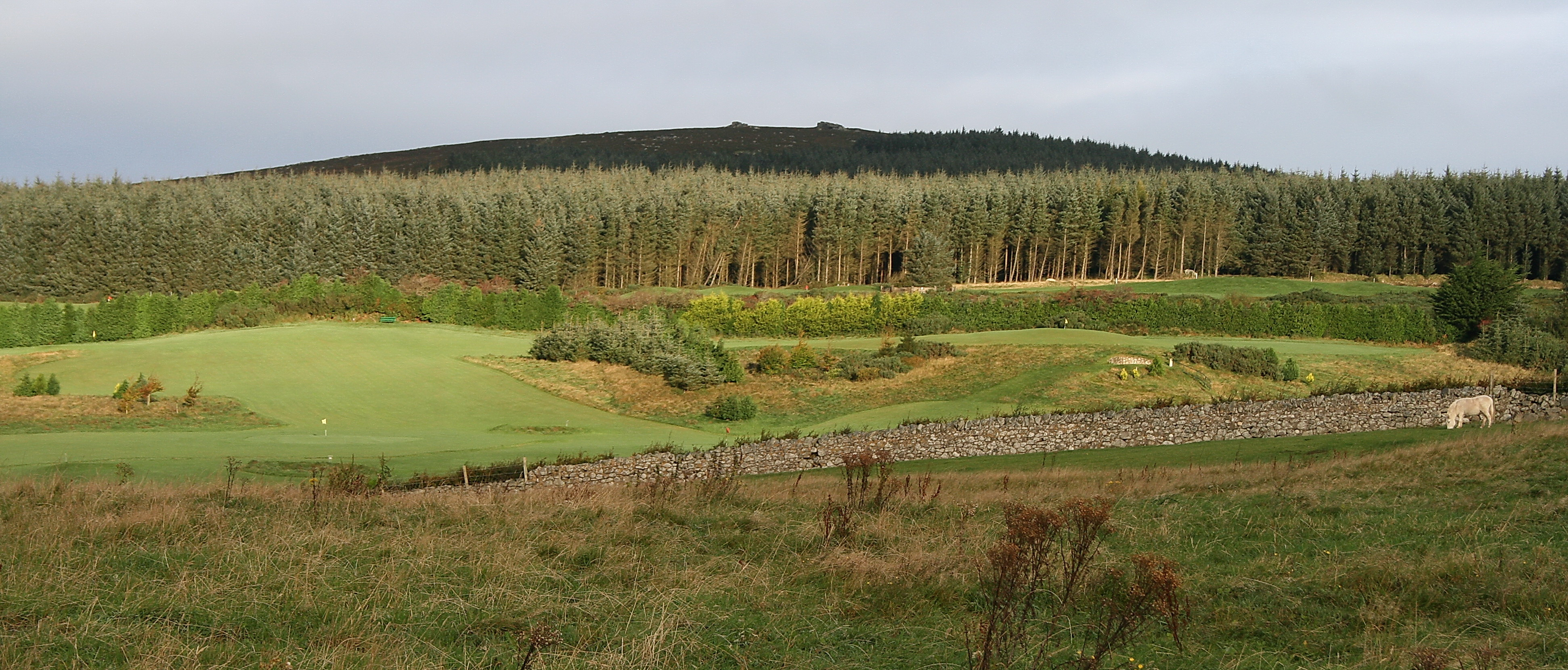 Two Rock mountain from the southeast, County Dublin, Ireland. The 'two rocks' which give the hill its name are visible in the photo. In the foreground is a golf course backed by a forestry plantation. The picture was taken above Glencullen village at an elevation of about 1,200 feet. (Sarah777 15:14, 29 October 2007 (UTC))